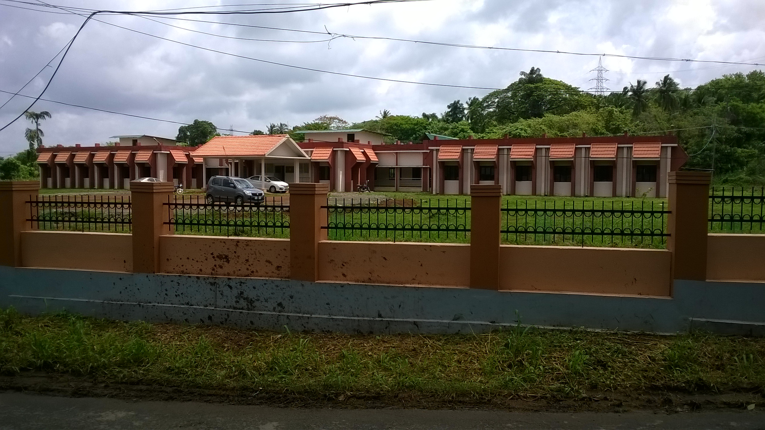 Picture of the Academy of Climate Change Education and Research, KAU, Kerala